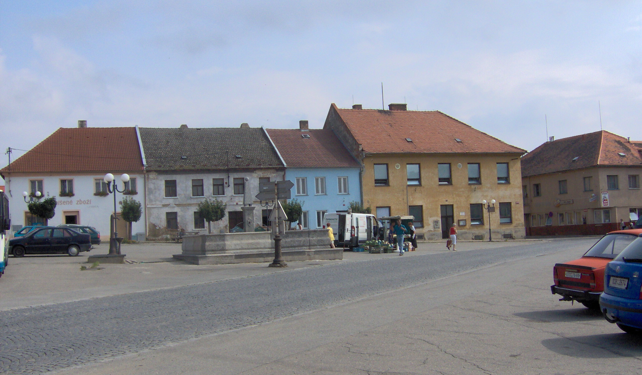 Square in Bavorov, Strakonice District, Czech republic